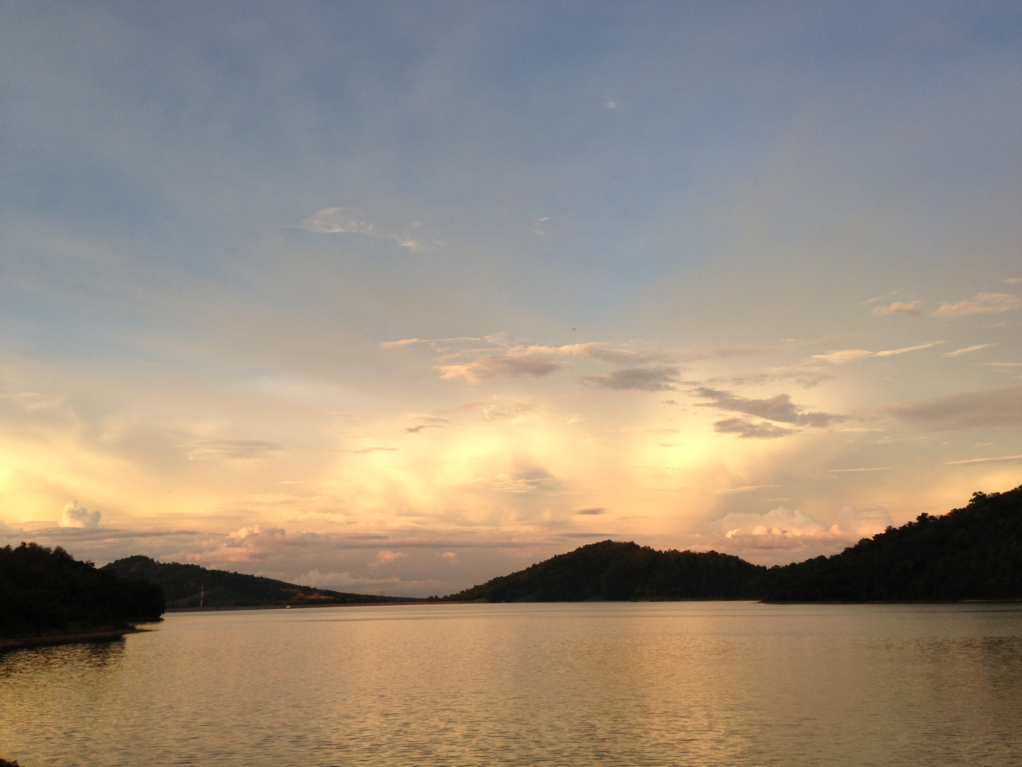 Scenic Mengkuang Dam at sunset.